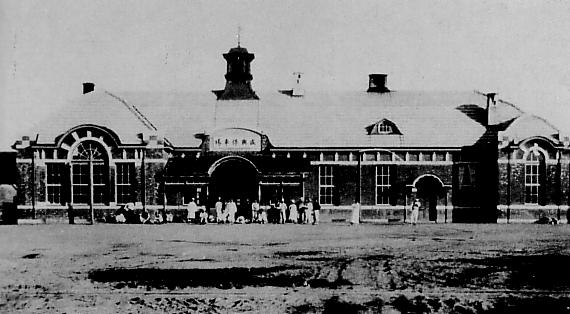 Kankou (Hamhung) Station